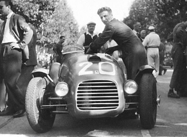 Entry #20 in 1947 Modena Gran Premio is driver Franco Cortese in a 1947 Ferrari 195 s/n 002C.[1] The main person in this picture is not Cortese, it looks like Adelmo Marchetti, one of Cortese's co-drivers and mechanics. This was the last year using the "old" Circuito di Modena, and there was a serious fatal accident.